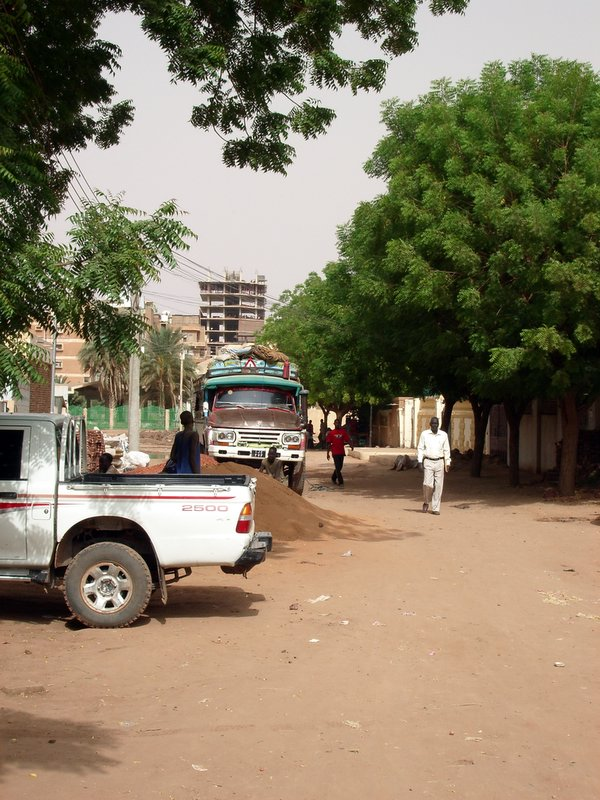 backstreet in Khartoum, Sudan